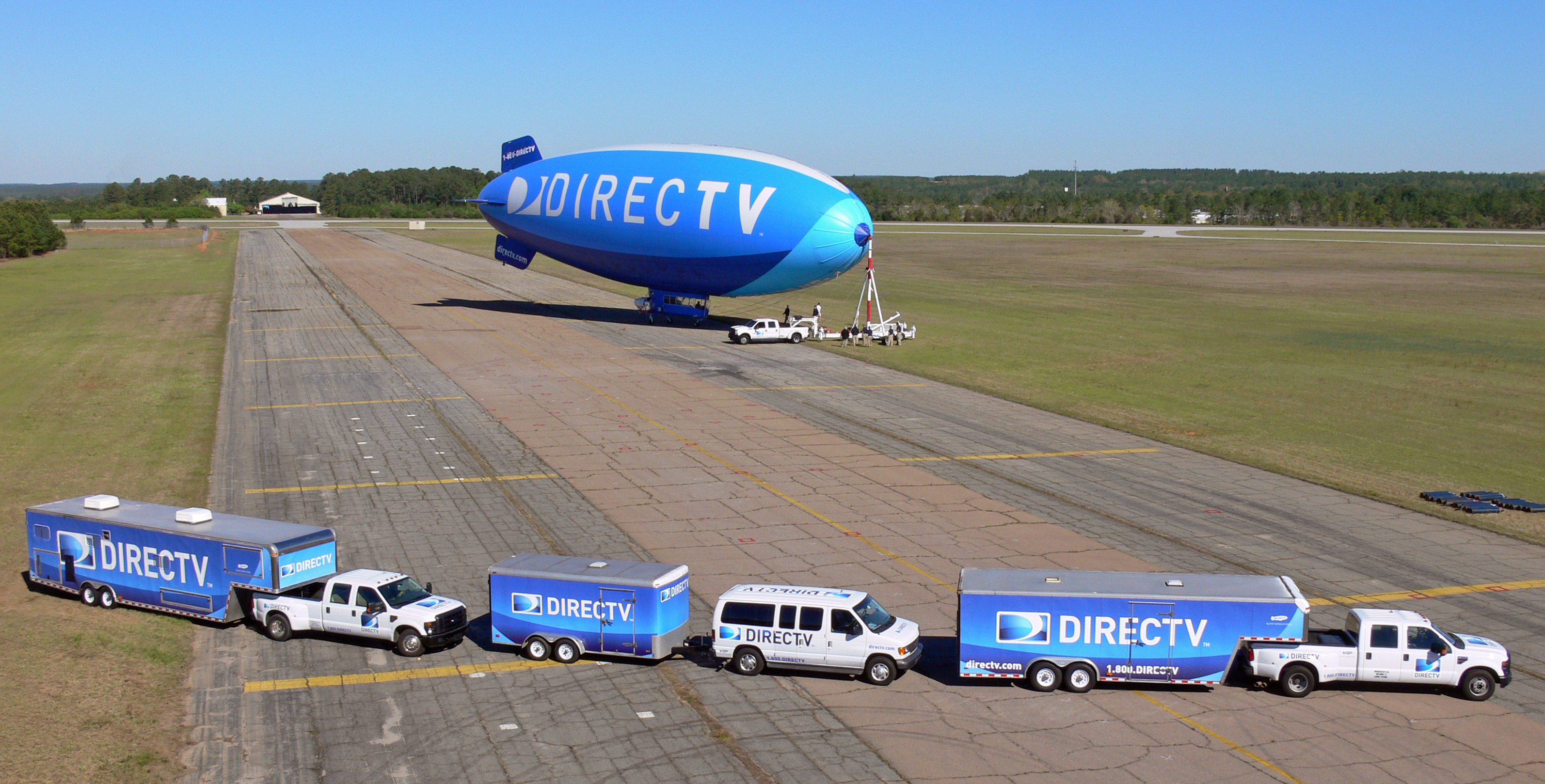 Photo of the DIRECTV blimp operation. includes the airship and supporting vehicles